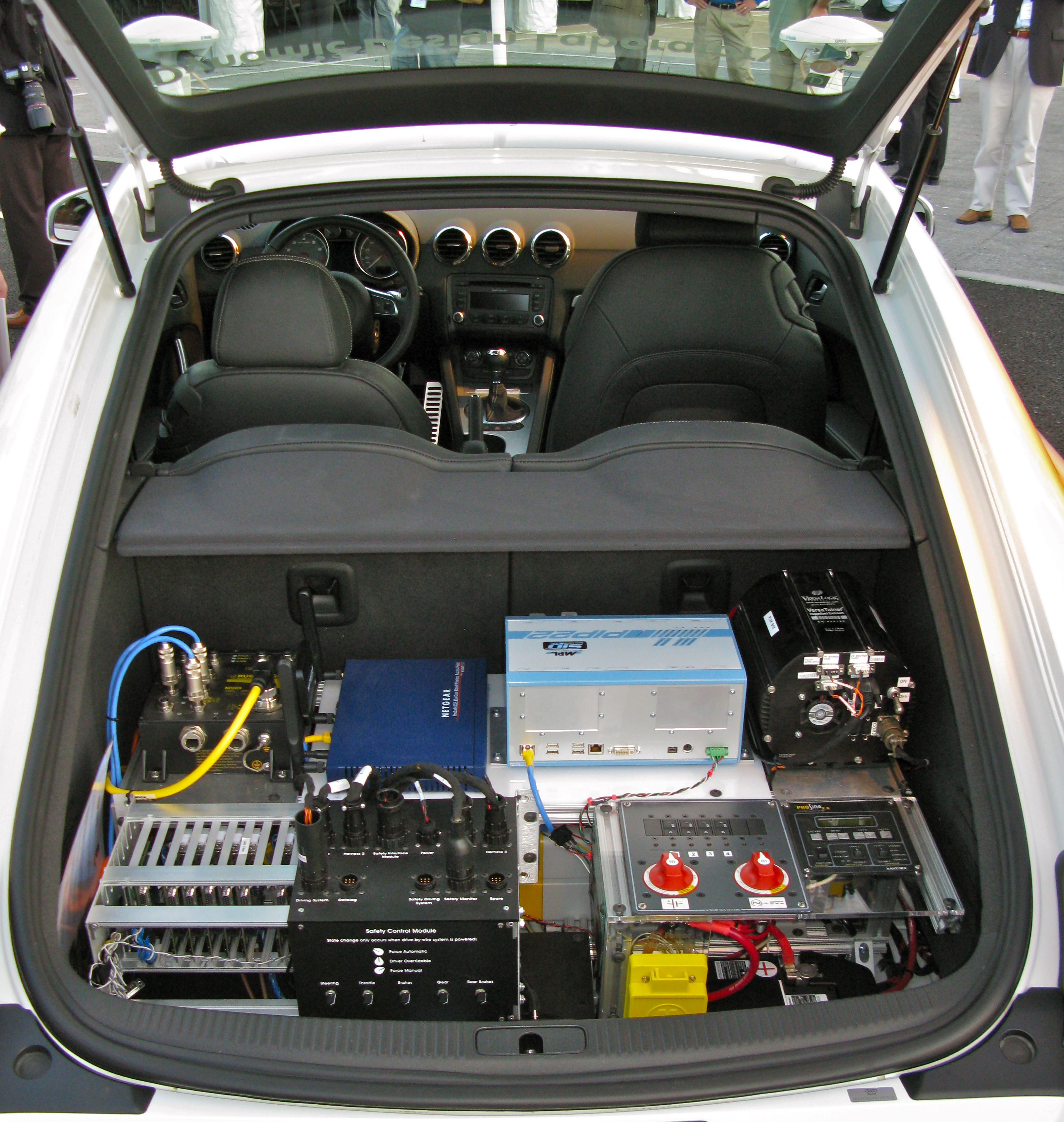 unveiled today at Stanford